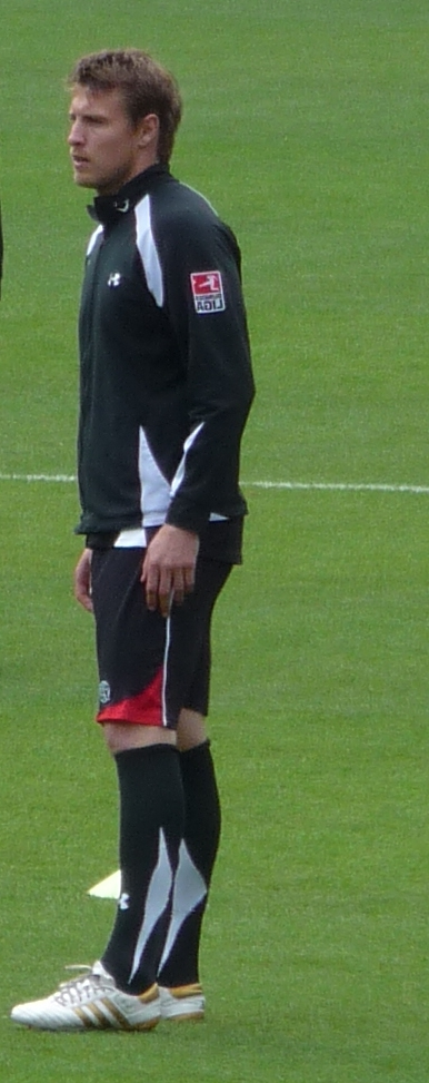 Ján Ďurica